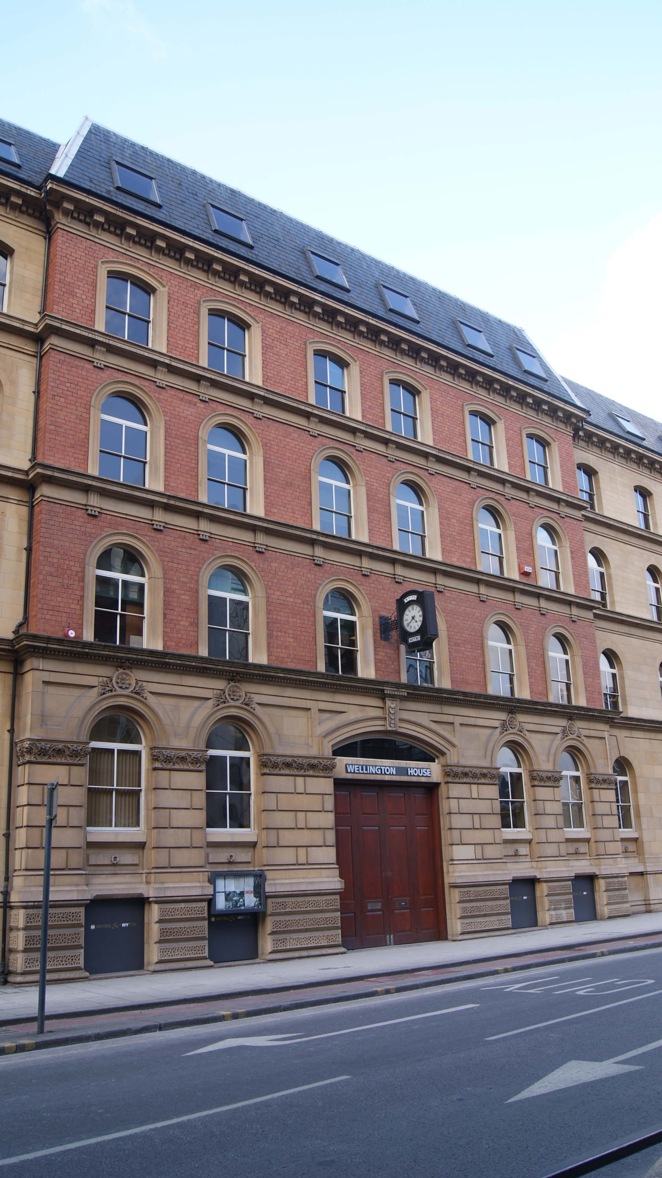 Wellington House, Wellington Street, Leeds, West Yorkshire. Wellington House in the headquarters of the West Yorkshire Passenger Transport Executive (Metro). Taken on the afternoon of Saturday the 30th of March 2013.